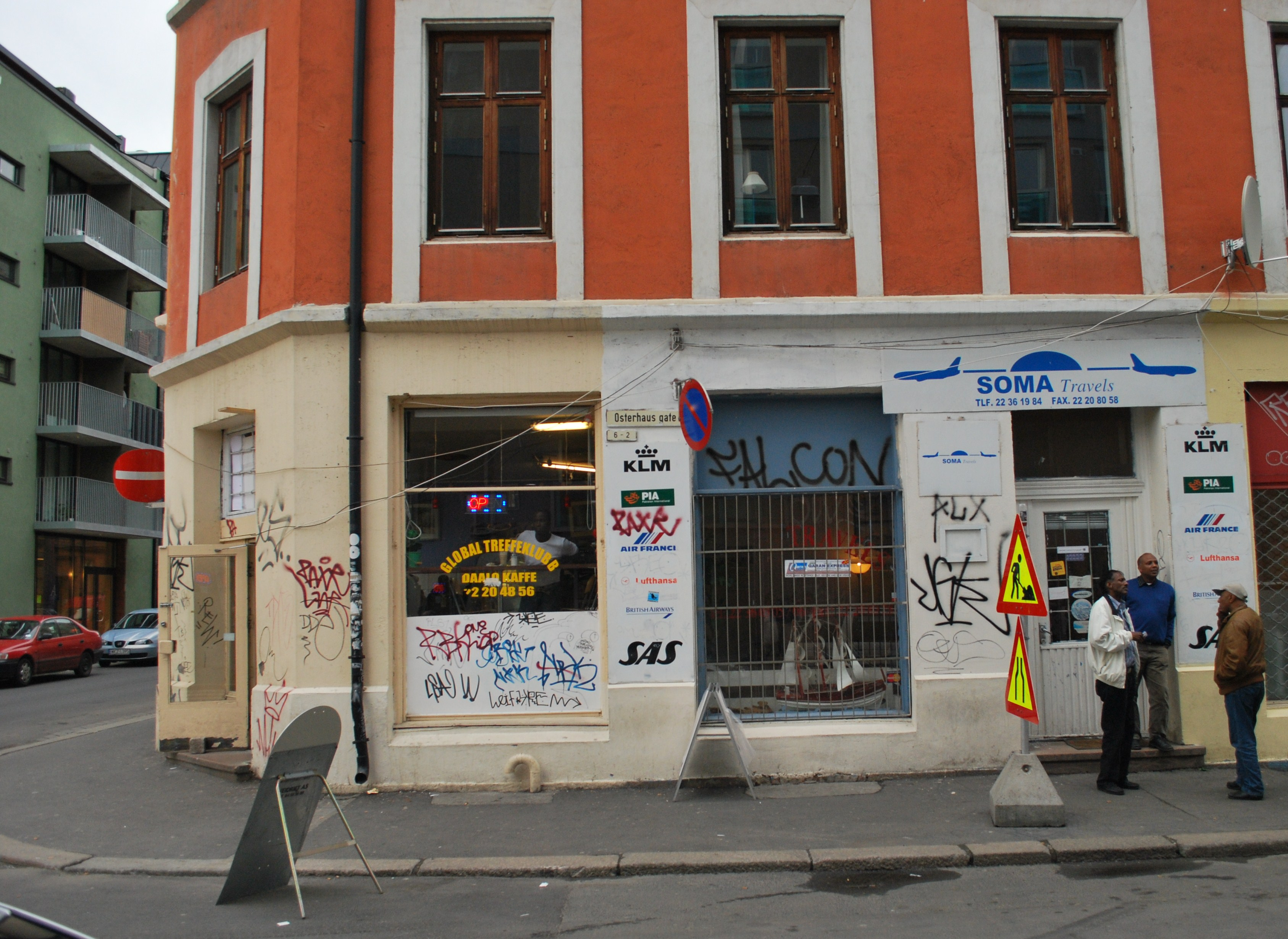 Immigrant businesses, Osterhaus gate, Hausmannskvartalene neighborhood, Oslo